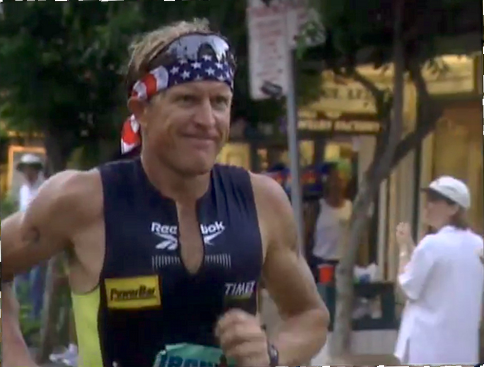 Scott Tinley at 1999 Ironman Hawaii